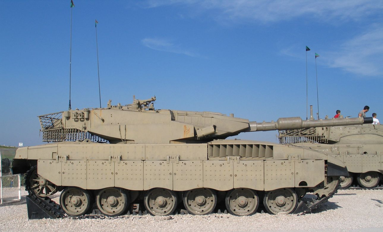 Description: Israeli Merkava Mk III MBT in Yad la-Shiryon Museum, Israel. 2005. Source: Photo by me, User:Bukvoed.